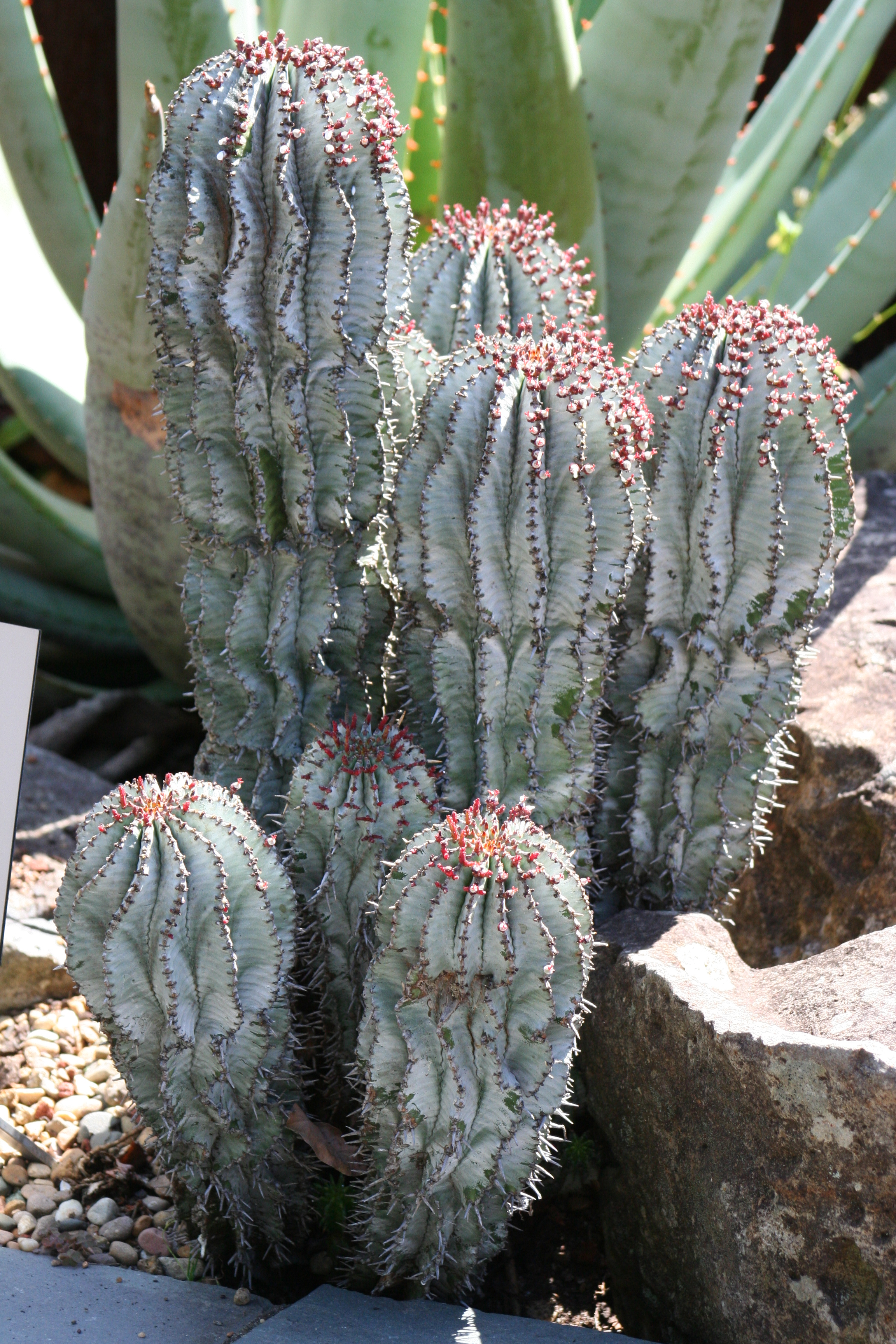 Euphorbia horrida, cultivated in cactus garden, Royal Botanic Gardens in Sydney